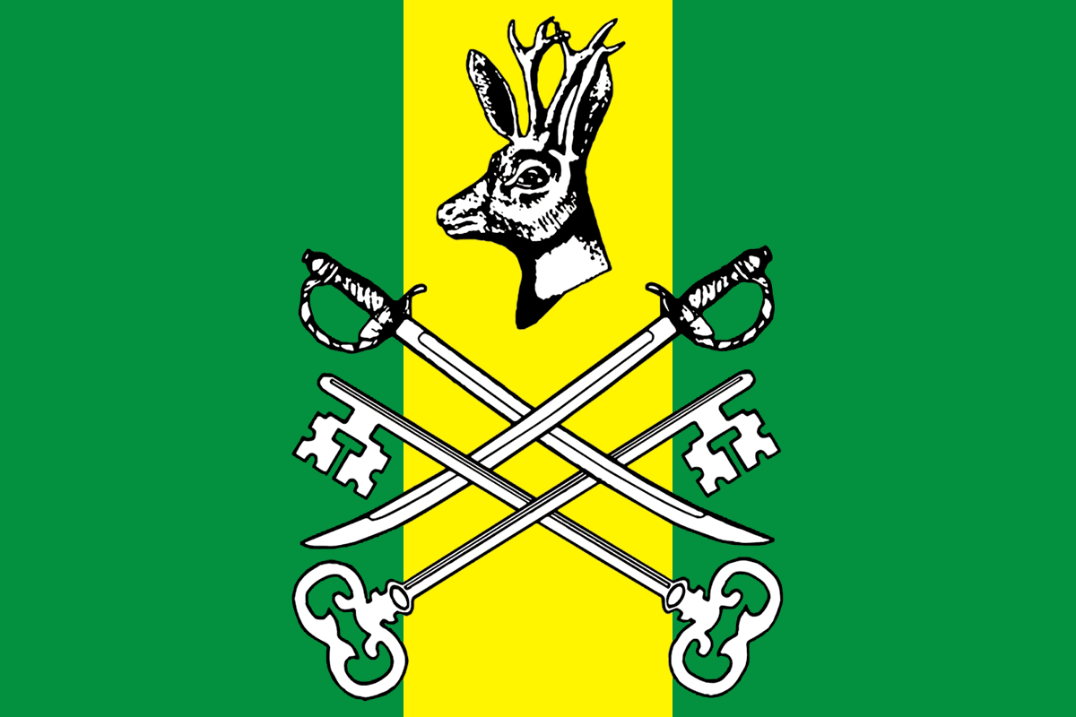 Shilka (Chita oblast), flag